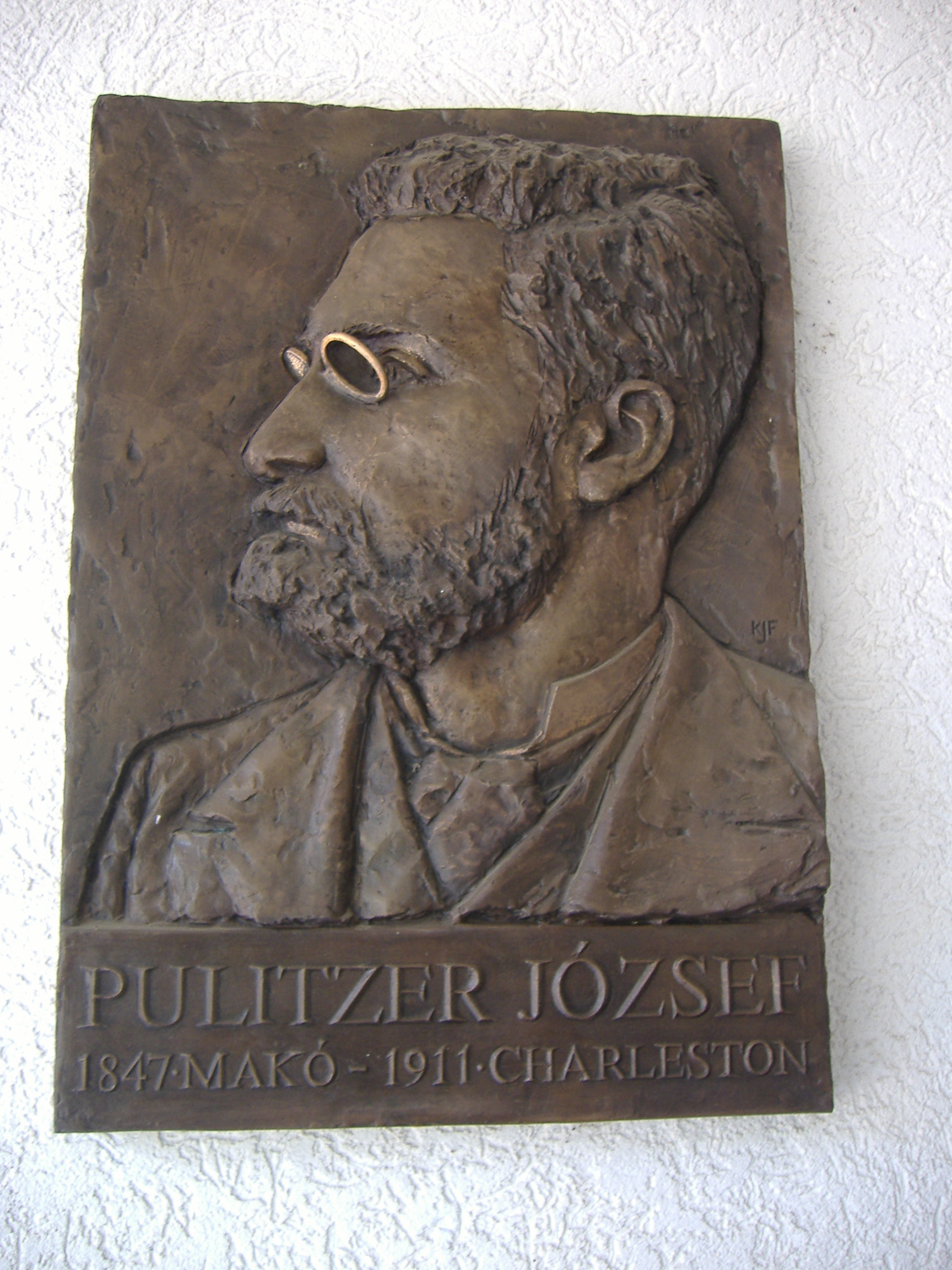 Relief of Joseph Pulitzer in his birthtown, Makó, Hungary. Sculptor: Jenő Ferenc Kiss (*1959) in 2006